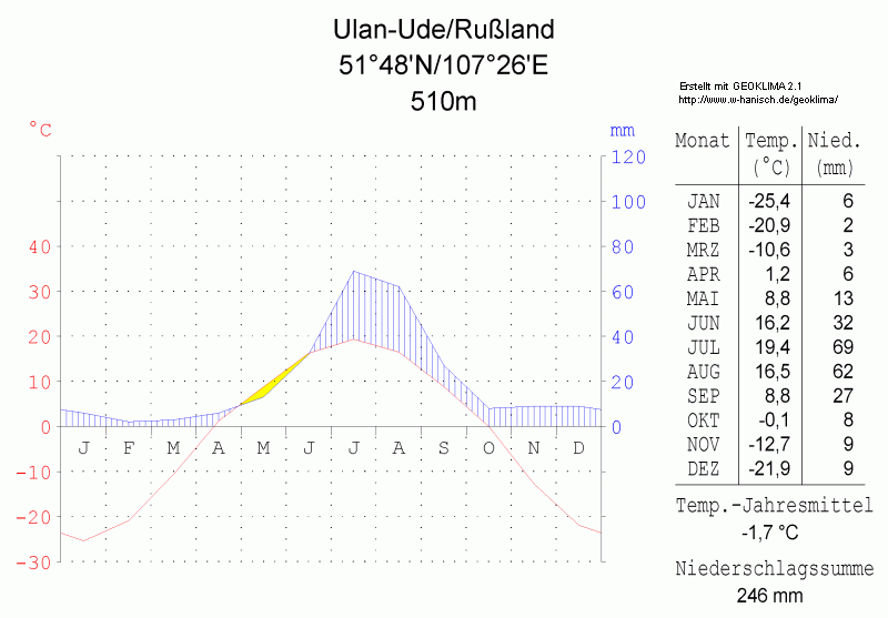 climate chart in the format by Walther and Lieth, metric, °Celsisus and millimeters, made with Geoklima 2.1